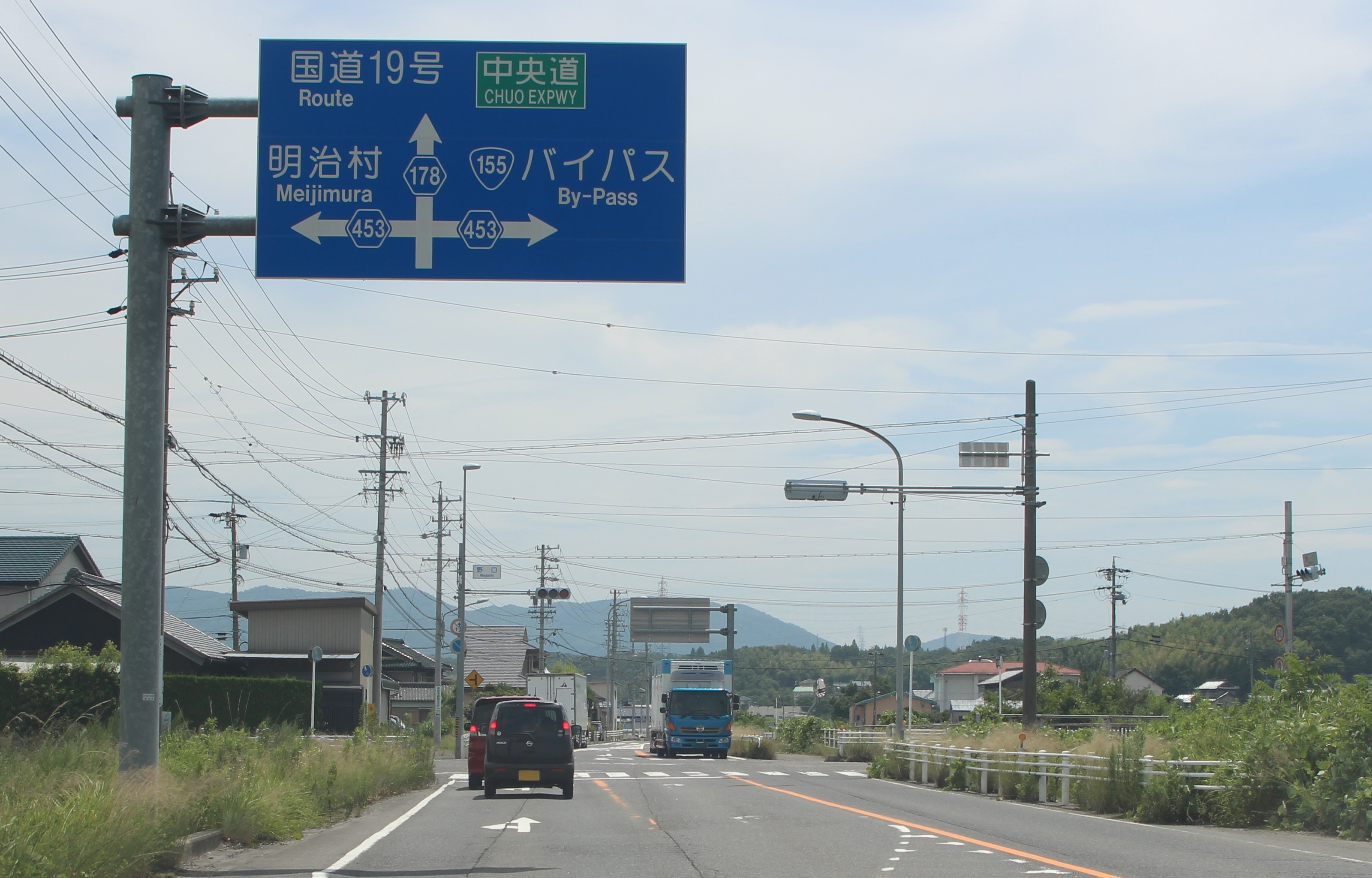 Aichi Prefectural Road Route 178 and Aichi Prefectural Road Route 453 in Noguchi, Komaki, Aichi Prefecture, Japan.